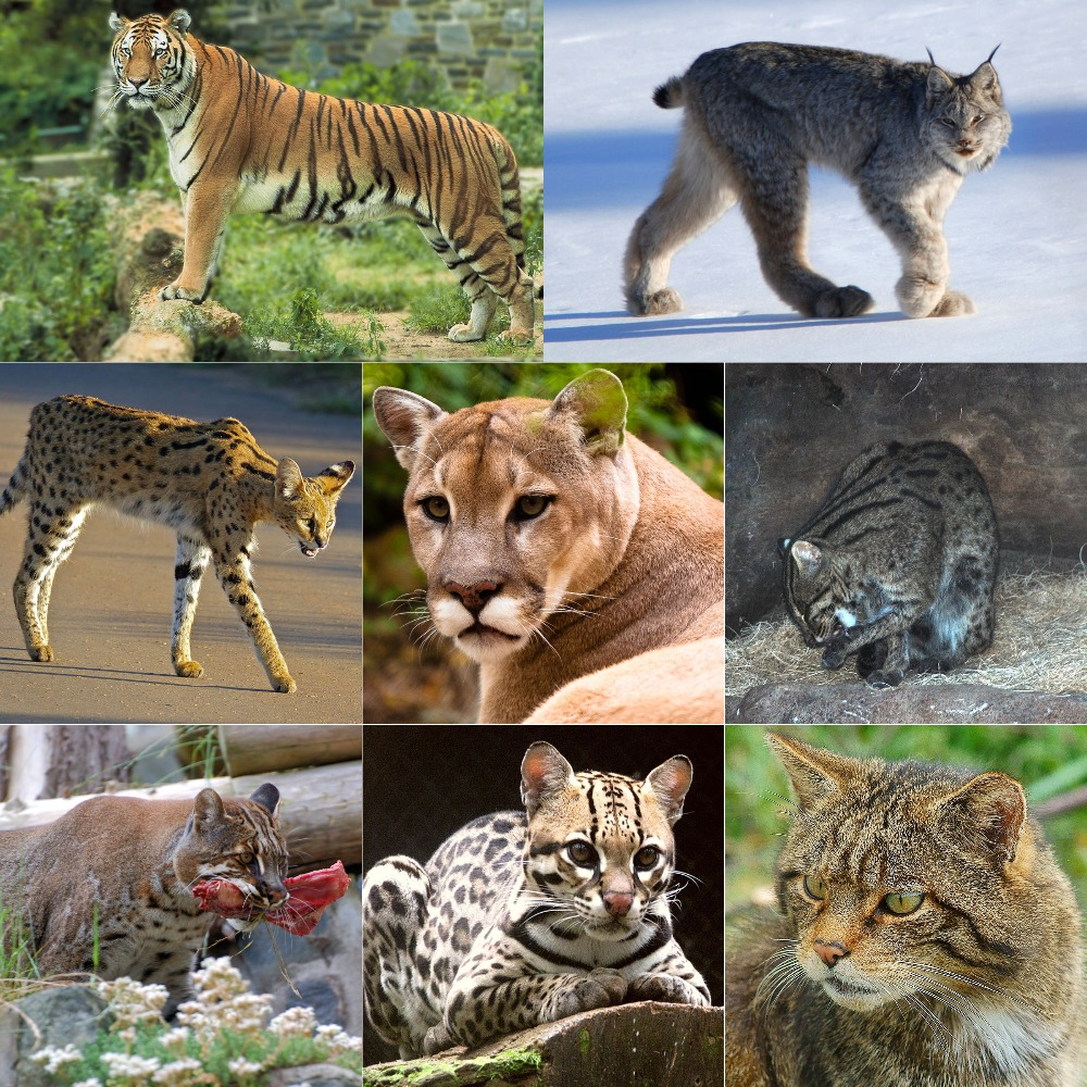 Image montage of: File:Panthera tigris tigris edit2.jpg Hollingsworth, John and Karen. File:Ocelot (Leopardus pardalis)-8.jpg Ana_Cotta File:Asiatische-Goldkatze-Catopuma-temminckii-tier-katze-0001 2.JPG Babirusa File:Canadian lynx by Keith Williams.jpg kdee64 (Keith Williams) File:Serval (Leptailurus serval) (14034520905).jpg Bernard DUPONT from FRANCE File:Cougar.jpg Malcolm File:Washington DC Zoo - Prionailurus viverrinus - 2.jpg Jarek Tuszyński File:'Lex' (5628421693).jpg Peter Trimming from Croydon, England